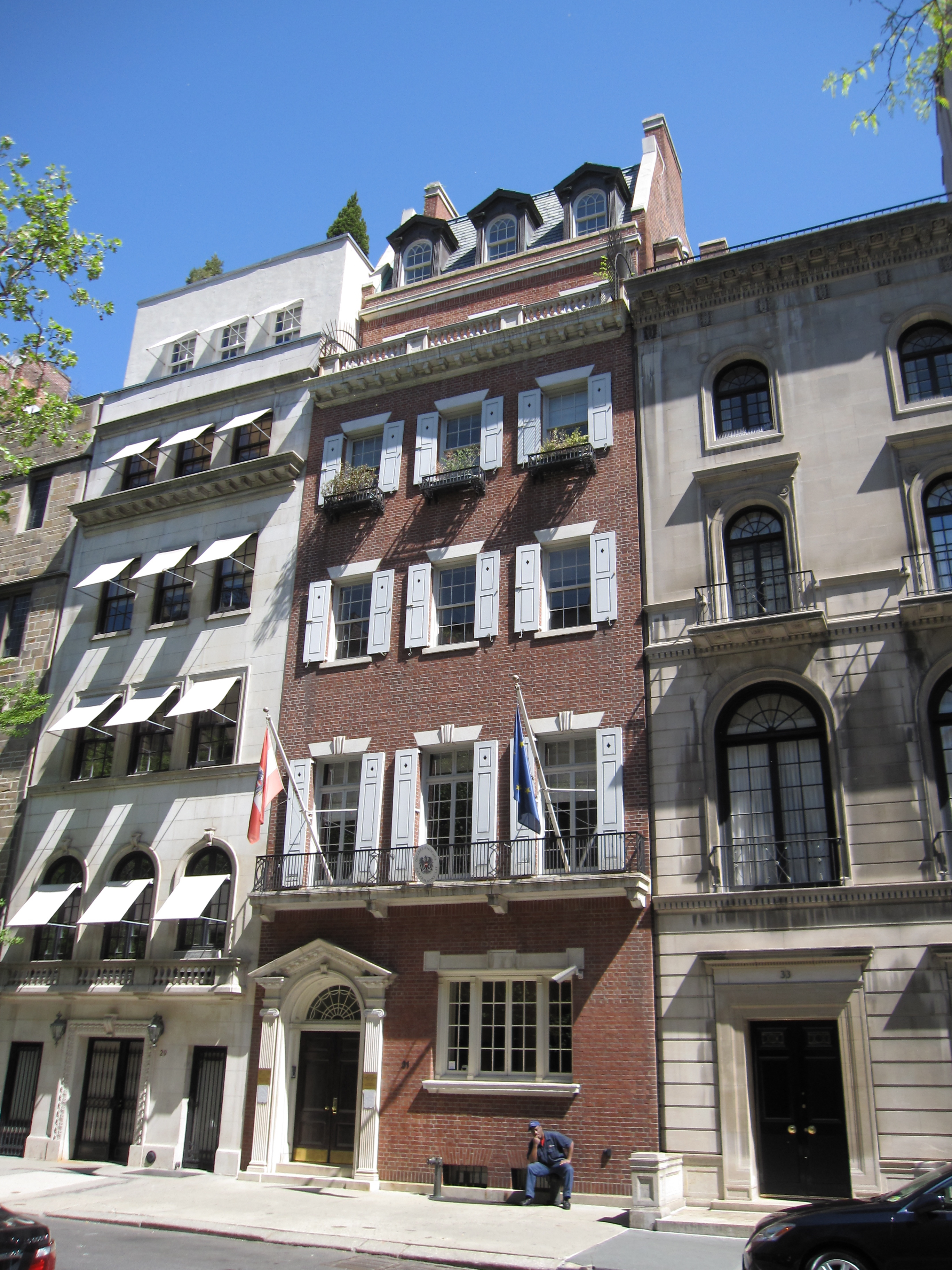 The former Augustus G. Paine, Jr. House, since the 1950's the Austrian Consulate General in New York City, on East 69th street.